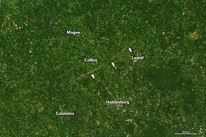 Natural-color image captured with the Moderate Resolution Imaging Spectroradiometer (MODIS) on NASA’s Aqua satellite that shows the EF4 tornado scar that swept through Jefferson Davis County to Clarke County in Mississippi